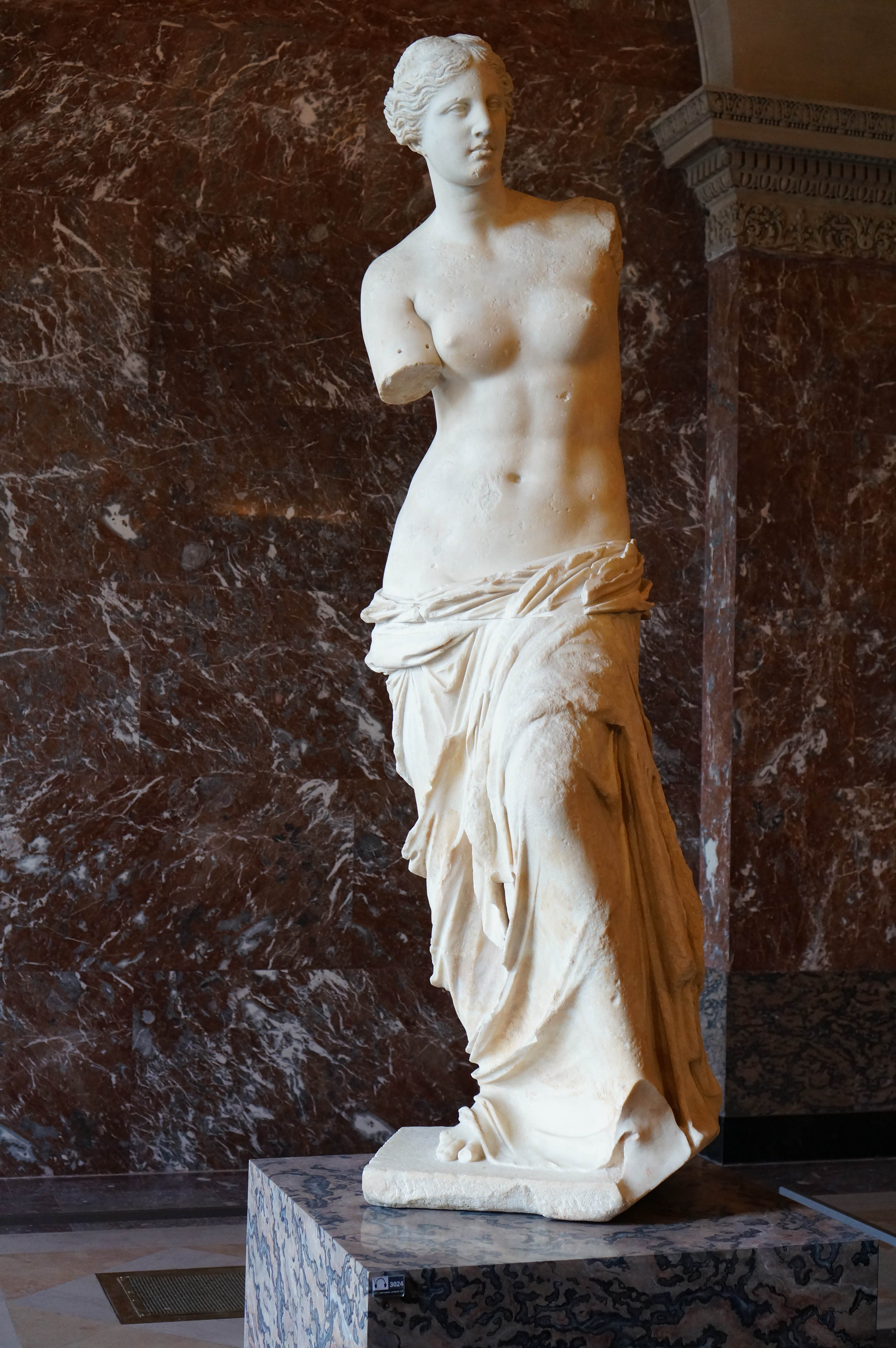 The legendary Venus de Milo in The Louvre.